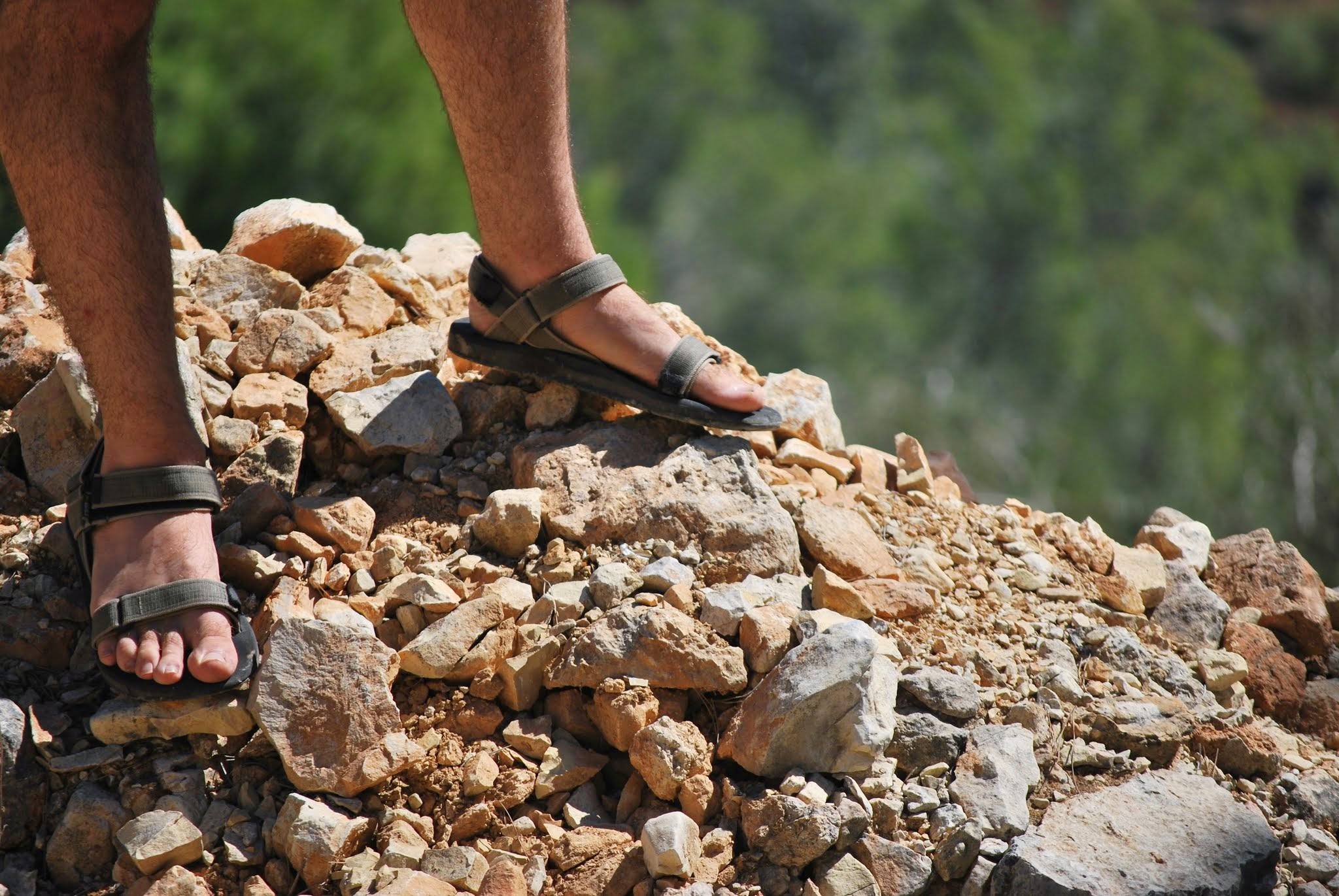 a photo of sandals (was taken near Jerusalem)